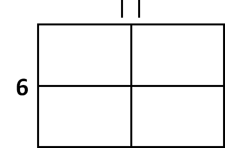 6 Med Bn Gp Nato Code